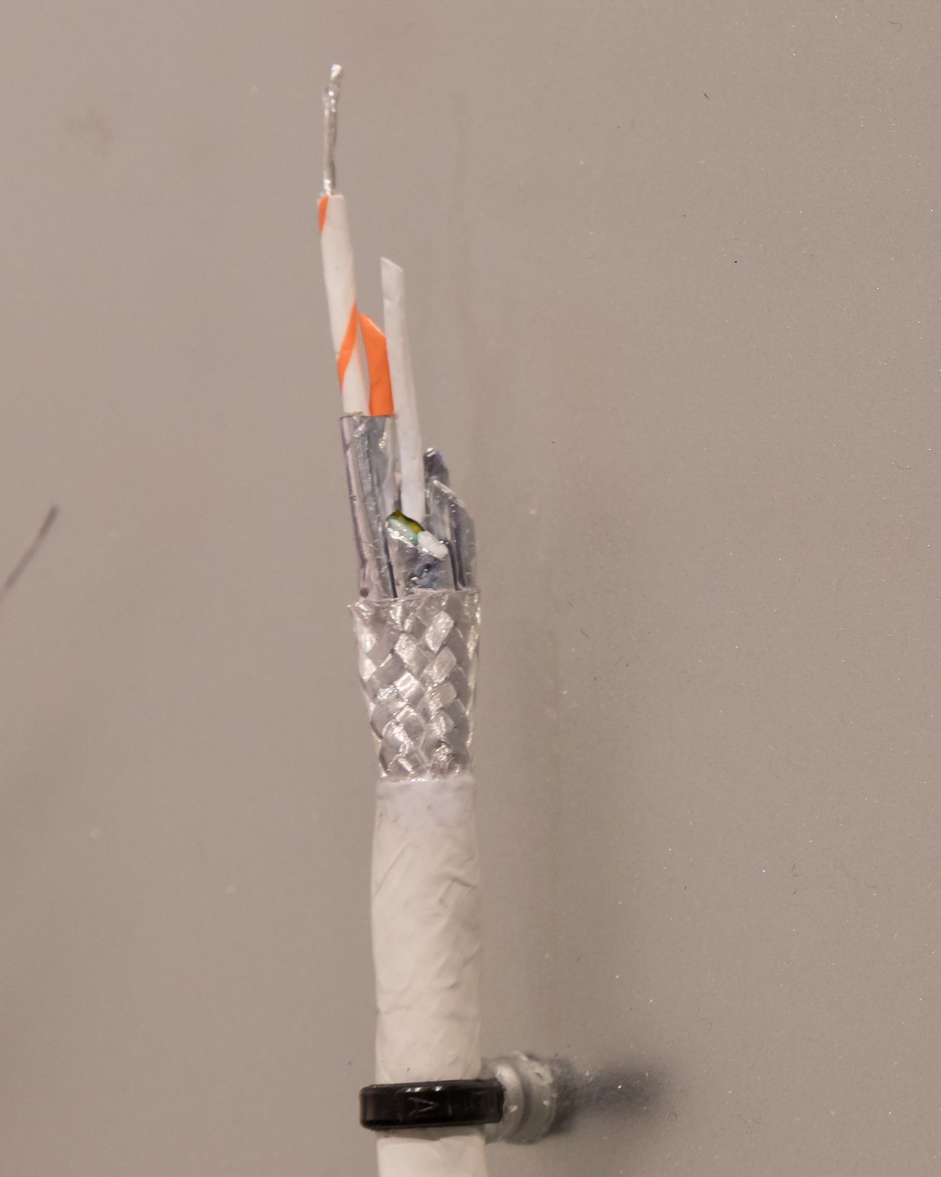 PTFE-insulated foiled twisted-pair cables for Ethernet applications in aviation at Passenger Experience Week 2018, Hamburg